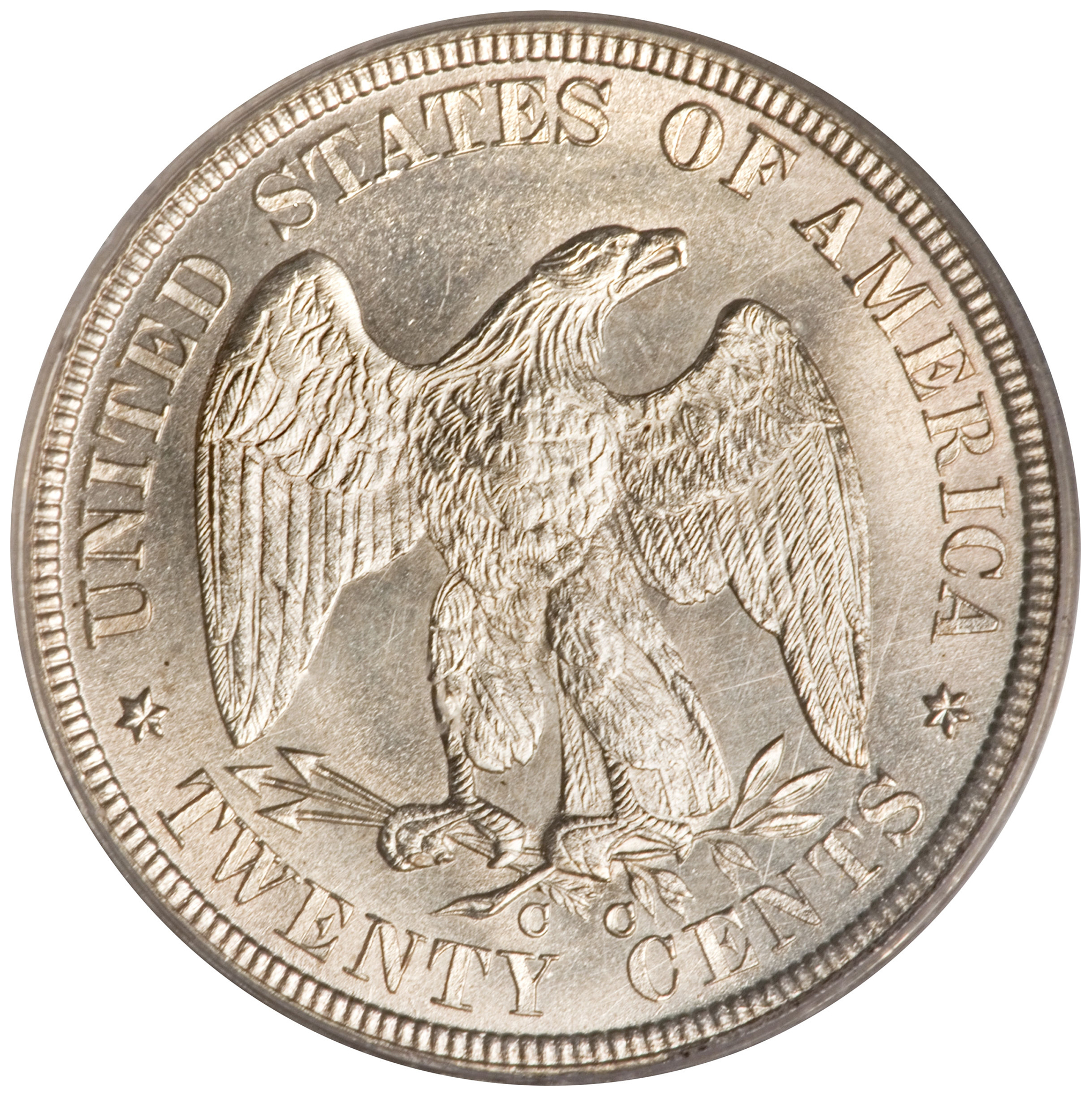 1876-CC 20C (rev) (1124-2299)